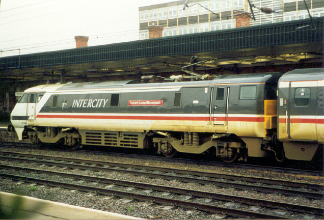 Doncaster. One would sincerely doubt that the original R.L.S. ever travelled as far in one day, and in such comfortable conditions, as these passengers behind his name-sake.